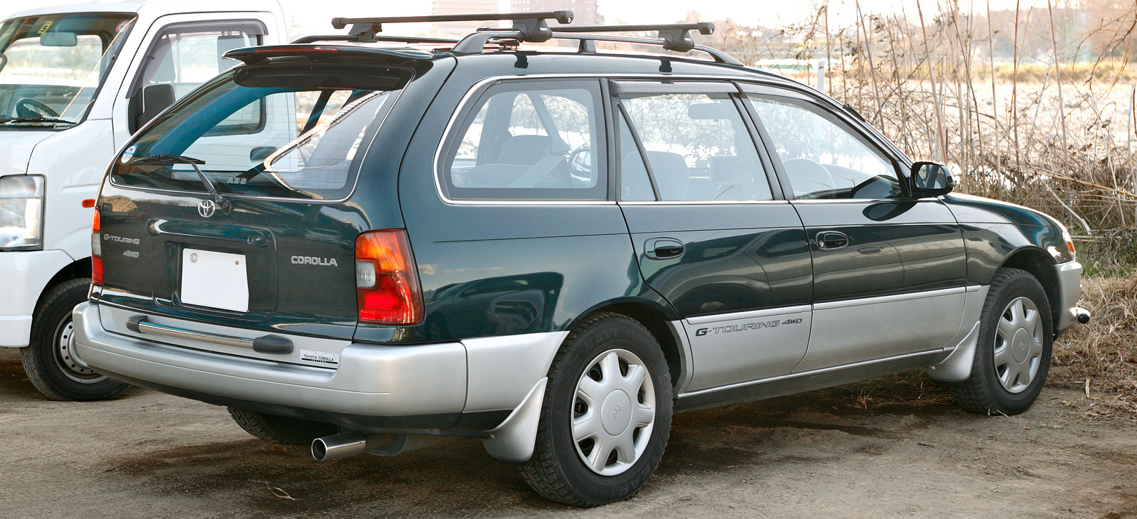 Toyota Corolla Wagon 1.6 G-Touring 4WD ( AE104G )